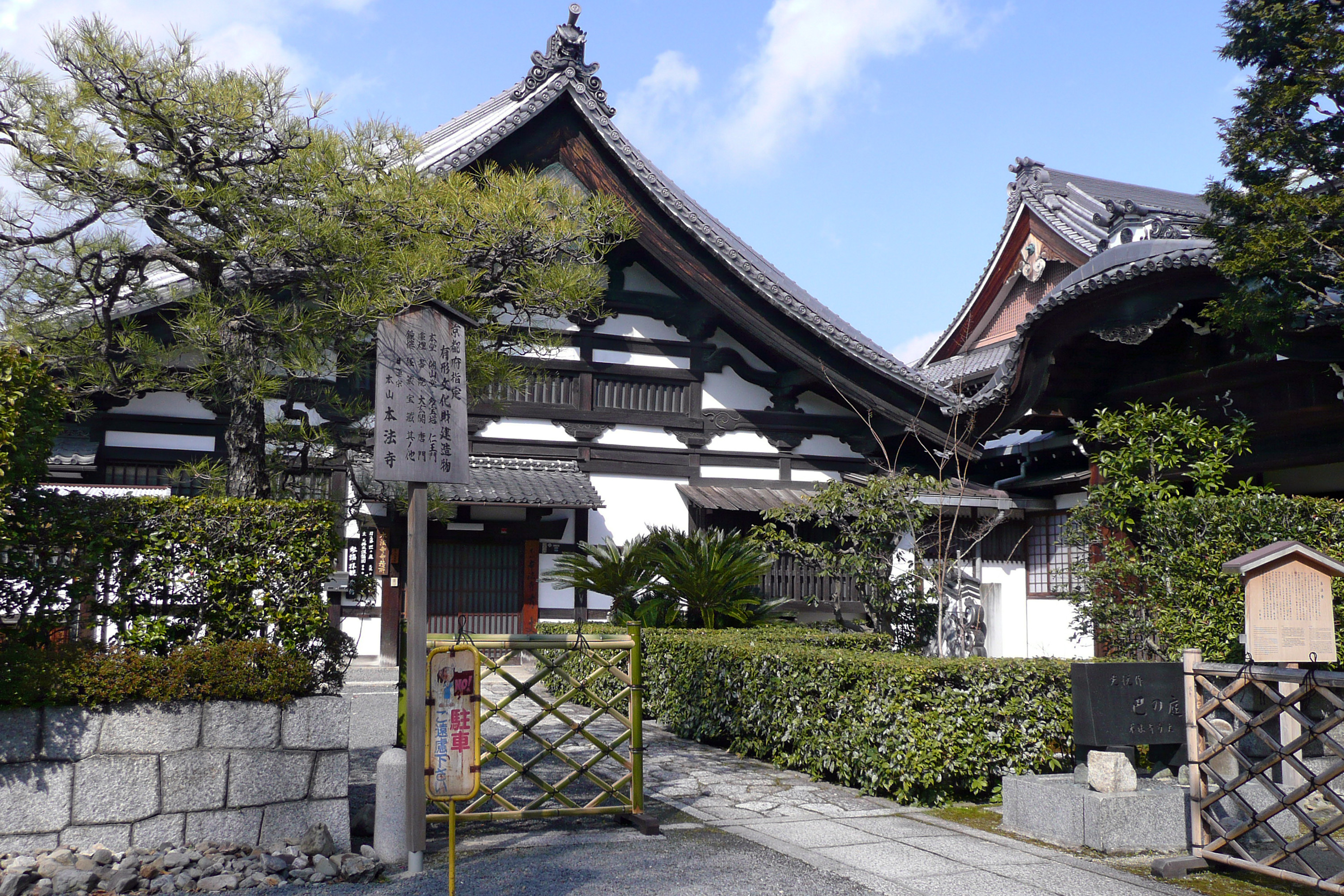 Honpoji in Kyoto, Kyoto prefecture, Japan